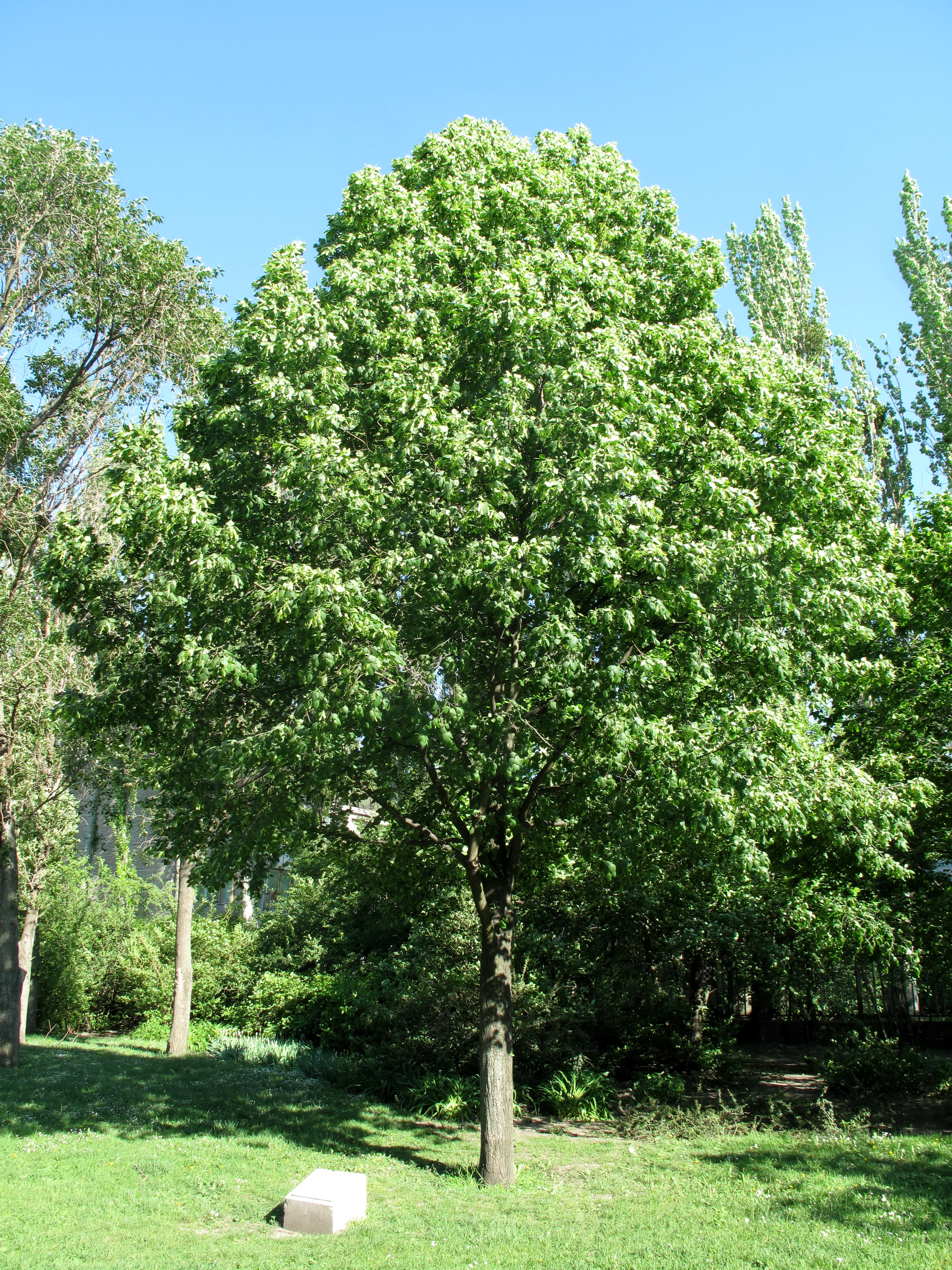 Liberty Tree and plaque, a gift from the workers of Monumental General Insurance Company, Baltimore, MD, USA on 29 August 1990.